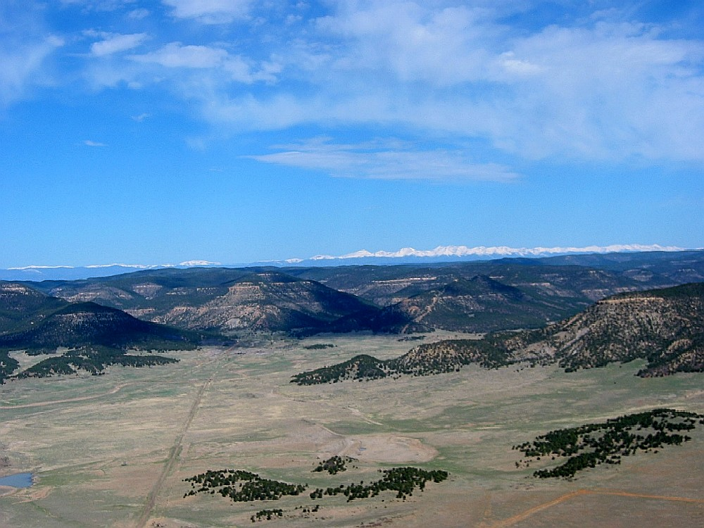 Aerial view looking west over Vermejo Park Ranch toward Valle Vidal unit of Carson National Forest. Photographer Name: Bruce Gordon Organization Name: SkyTruth / EcoFlight Credit For Photo: organization